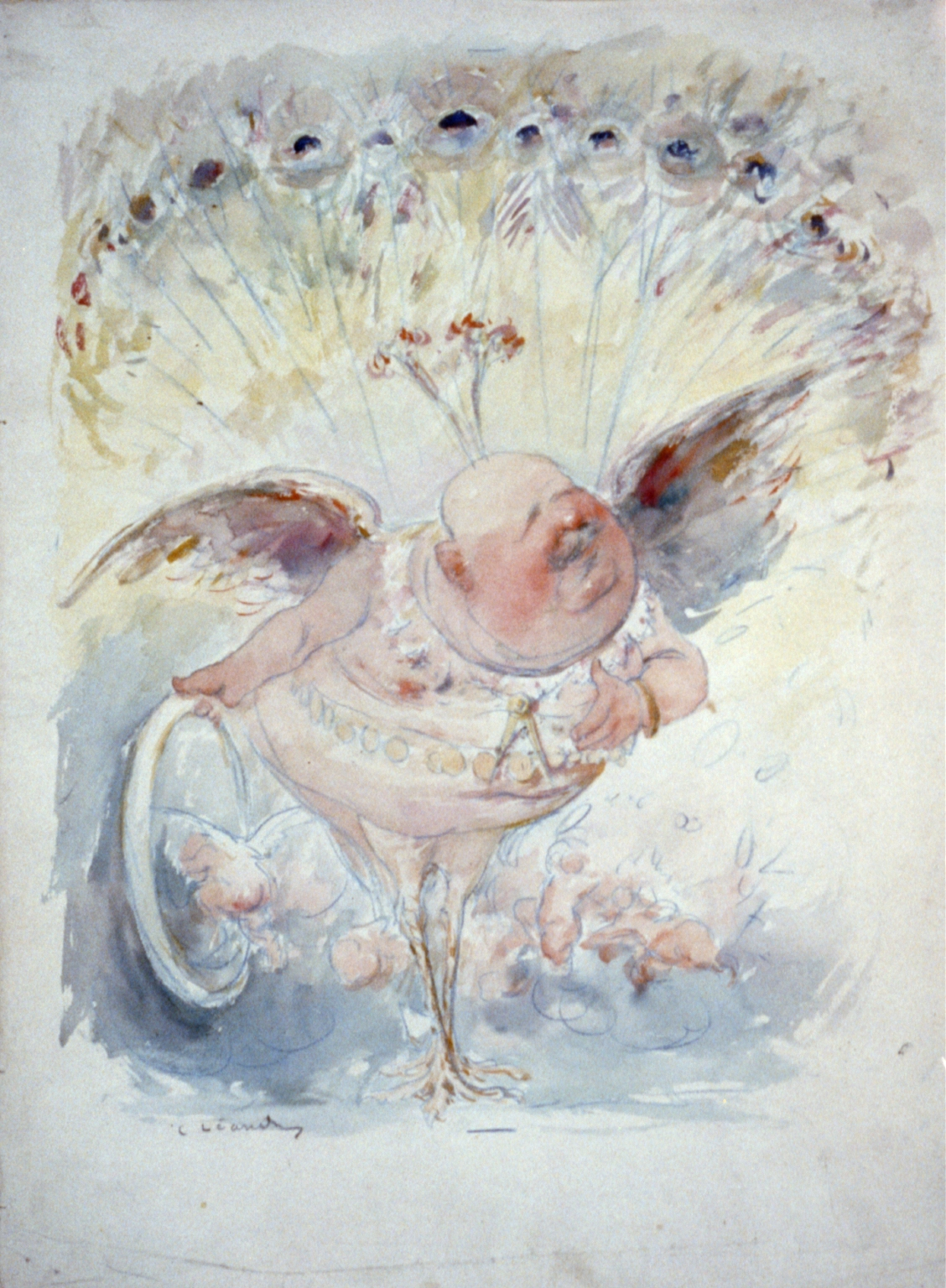 Caricature of French architect Gustave Rives (b. 1858) by Charles Léandre (1862-1934) published in Le Rire in 1906.